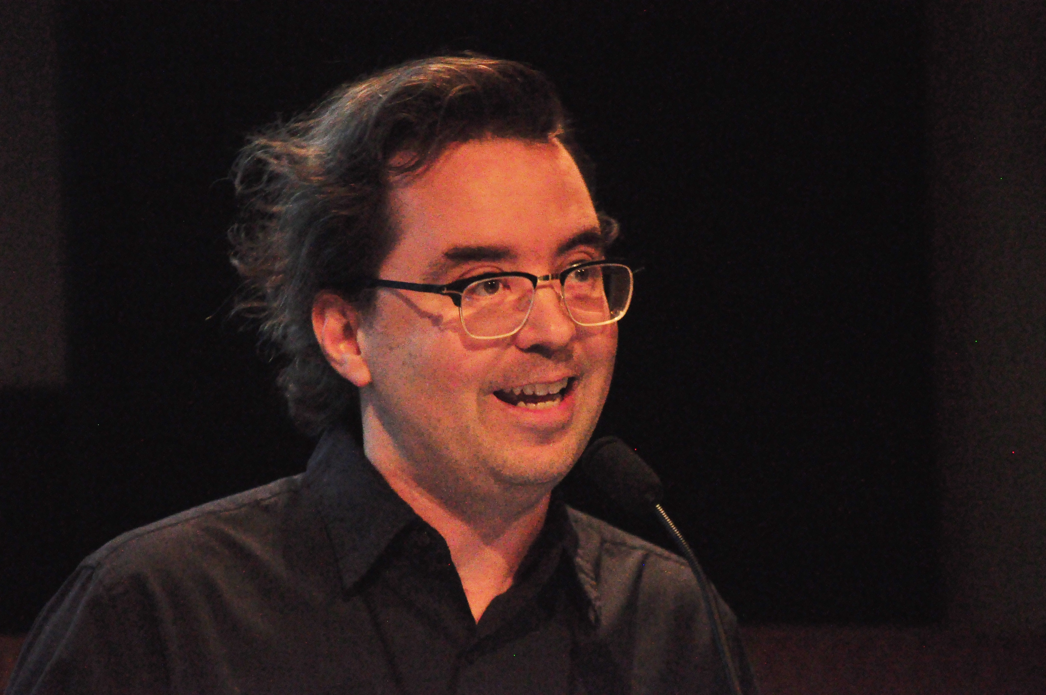 Kembrew McLeod presenting at the 2014 Pop Conference, EMP Museum, Seattle, Washington, U.S.